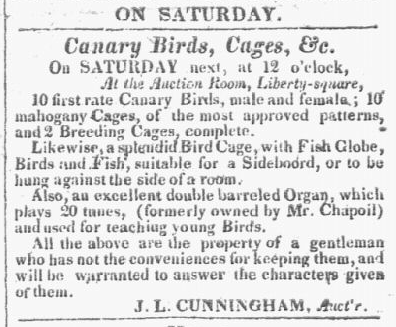 Newspaper item related to J.L. Cunningham, auctioneer, Boston, Massachusetts